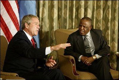 President George W. Bush begins participation in meeting with the President Festus Magae of Botswana in Gaborone, Botswana, Thursday, July 10, 2003.